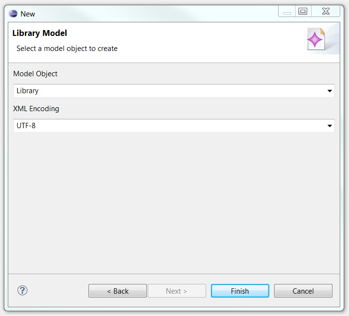 Generated EMF wizard for the Library metamodel